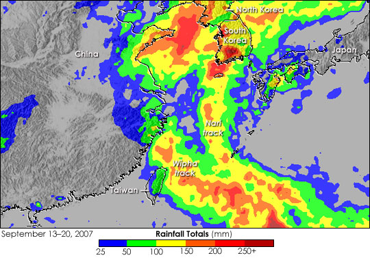 At one time a powerful Category 4 storm, Typhoon Nari made landfall on the southern coast of the Korean peninsula as a Category 2 storm on September 16, 2007. Less than three days later, Category 3 strength Typhoon Wipha made landfall on the east coast of China. It, too, was once a powerful Category 4 storm. Together these storms brought a significant amount of rainfall to the region. As of September 20, Nari had caused at least 13 deaths in South Korea, while Typhoon Wipha caused at least 9 deaths in China, said news reports. This image shows rainfall totals associated with the two storms from September 13 through September 20. The path of the storms is defined by two parallel swaths of rainfall of at least 100 millimeters (about 4 inches, yellow areas) extending northward from the western Pacific Ocean towards the Korean Peninsula. The swath on the right is associated with the passage of Nari, while that on the left is due to Wipha. The highest totals over South Korea are on the order of 150 to 250 mm (about 6 to 10 inches) and come from both Typhoon Nari and its interaction with a pre-existing frontal boundary. Likewise, the highest totals associated with the passage of Wipha, located over Korea Bay and the northern Yellow Sea (areas in red indicate rainfall totals around 200 mm, or about 8 inches), are from Wipha’s interaction with a frontal boundary.